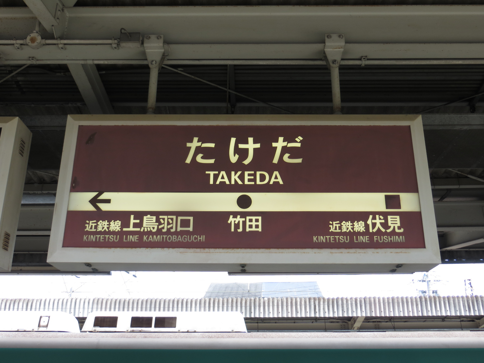 Sign of Takeda Station on Kintetsu Kyoto Line.